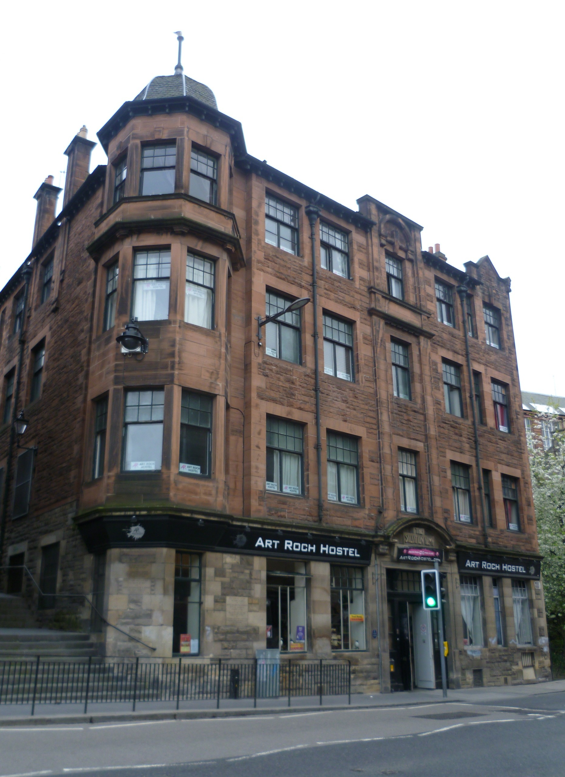 Now a hostel for backpackers.